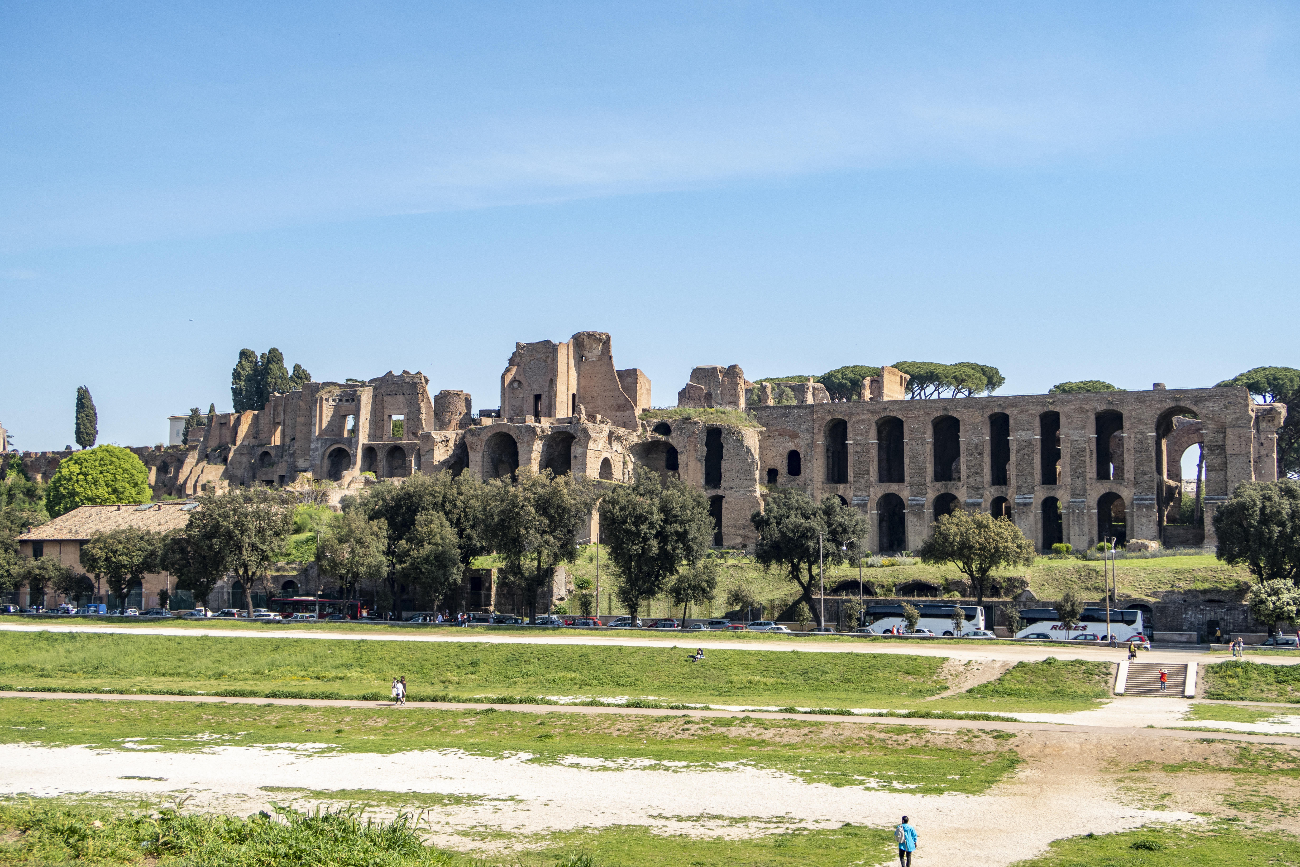 View of the Palatine Hill from across the Circus Maximus, taken in April 2019.